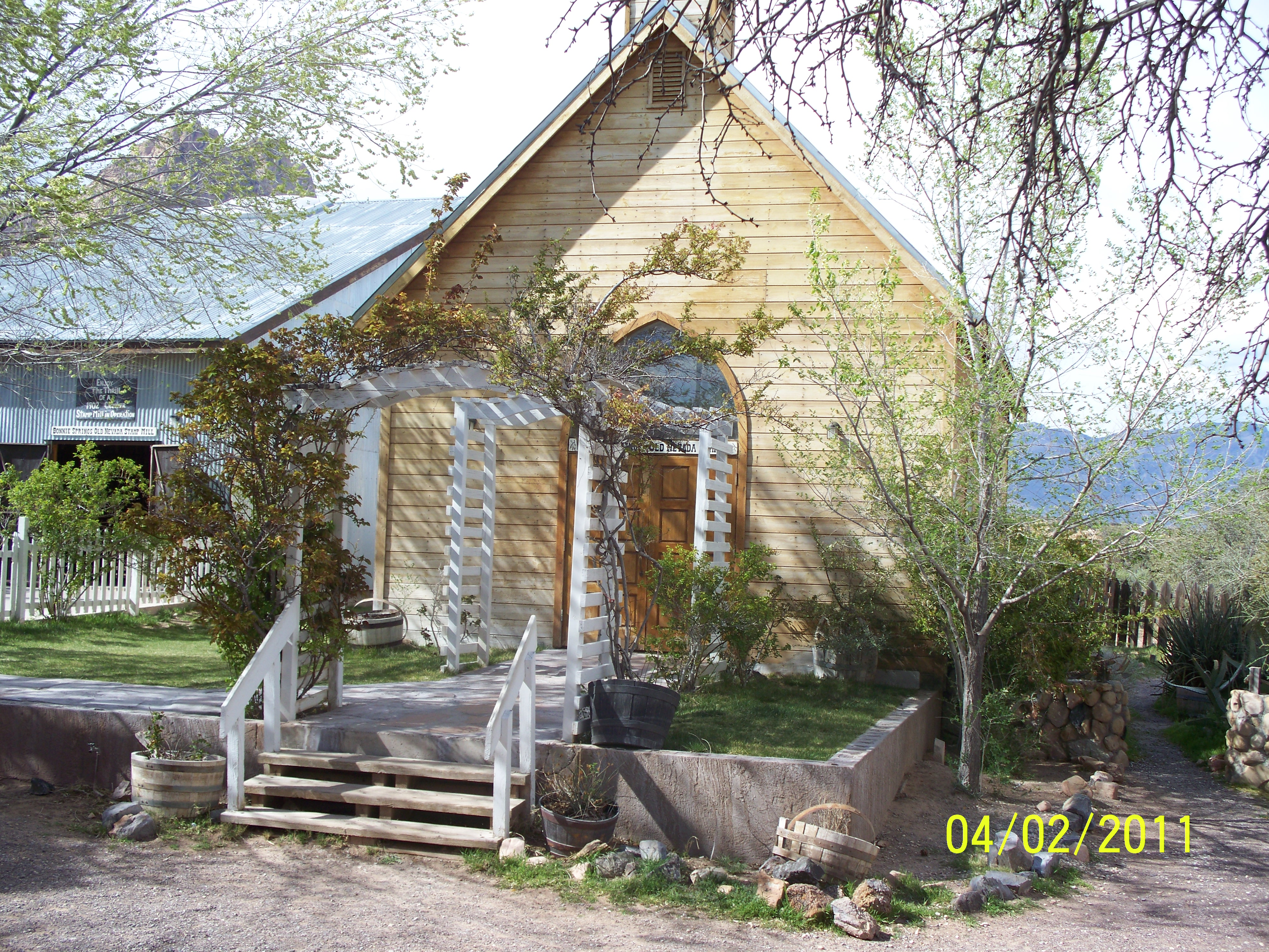 The wedding chapel at Bonnie Springs' Old Nevada western town, near Las Vegas.